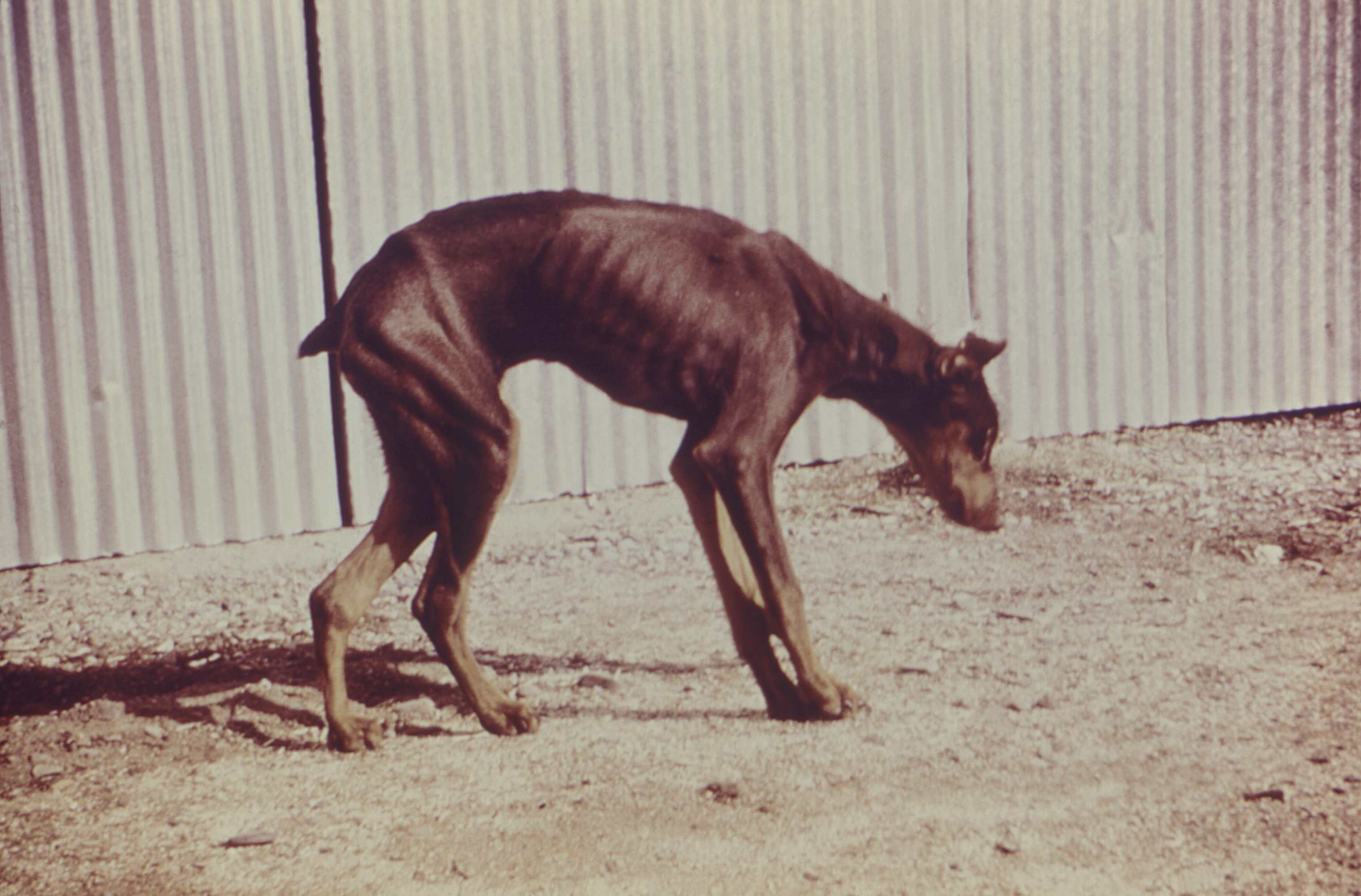 Located in Arizona, this Doberman Pinscher displayed the signs of wasting, lethargy, and disorientation due to a fungal infection known as coccidioidomycosis, which is caused by a fungus from the genus Coccidioides. Note the head-down posture, and trembling gait, as well as the dog’s loss of mass, so much so that its ribs and other skeletal elements were clearly visible. Coccidioides is a genus of fungi found in the soil of dry, low rainfall areas. It is endemic (native and common) in many areas of the southwestern United States, Mexico, Central and South America. Coccidioidomycosis, also known as Valley Fever, is a common cause of pneumonia in endemic areas. At least 30% – 60% of people who live in an endemic region are exposed to the fungus at some point during their lives. In most people the infection will go away on its own, but for people who develop severe infections or chronic pneumonia, medical treatment is necessary. Certain groups of people are at higher risk of developing severe disease. It is difficult to avoid exposure to Coccidioides, but people who are at higher risk should try to avoid breathing in large amounts of dust if they are in endemic areas.